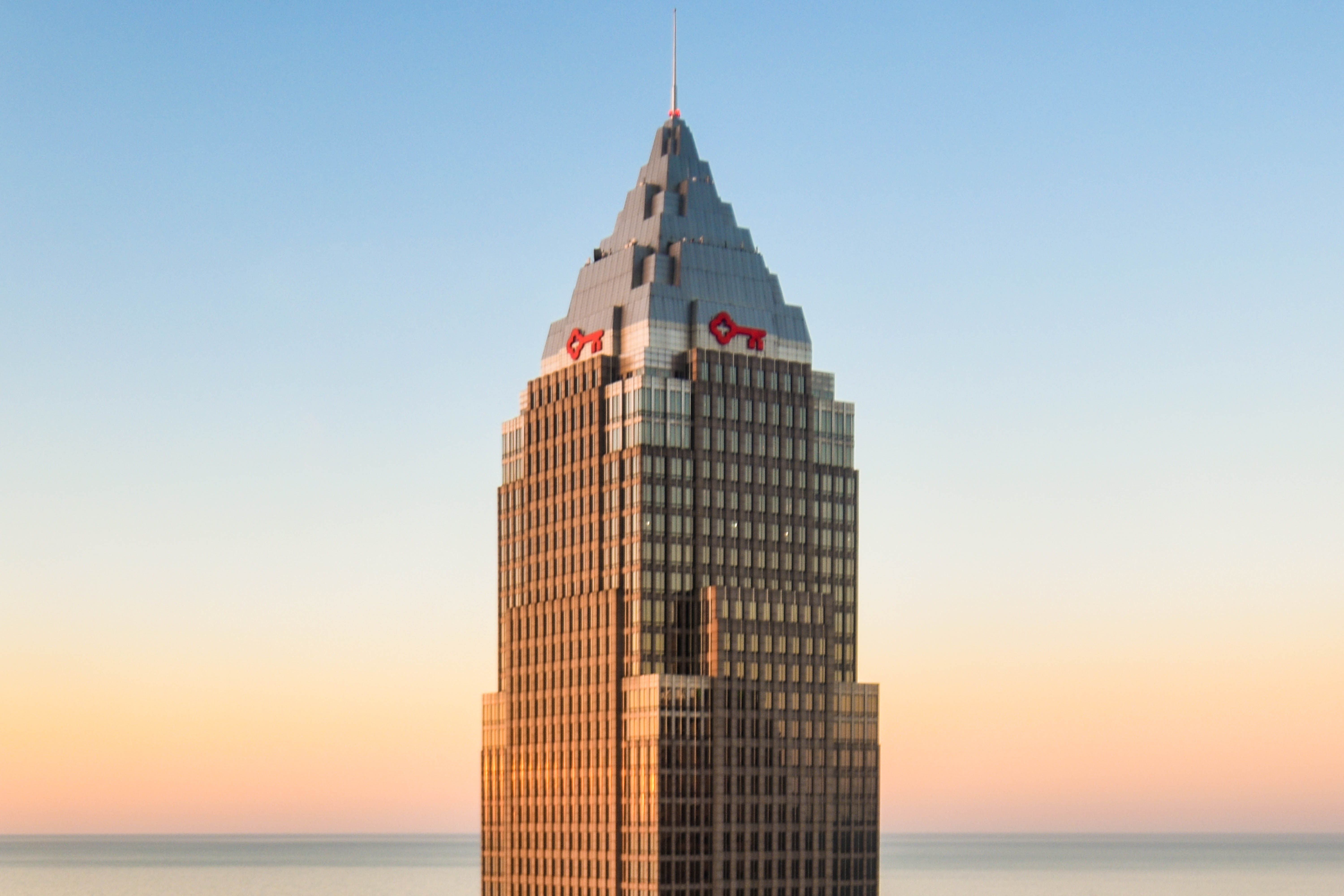 Key Tower